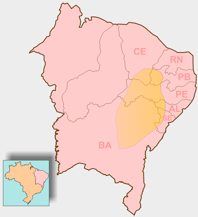 Map of Cangaço in Brazil (1890-1930)